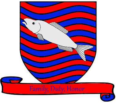 A fictional coat of arms. The coat of arms of House Tully. Shows a silver fish on a field of red and blue waves. Underneath is a scroll bearing a motto: Family, Duty, Honor. The following Commons images were used to create this image: File:Old French Escutcheon.svg by Masur (talk · contribs) File:Coat-elements-2.png by Qyd (talk · contribs) (scroll on bottom) File:Coa Illustration Elements Animal Fish.svg by Madboy74 (talk · contribs)